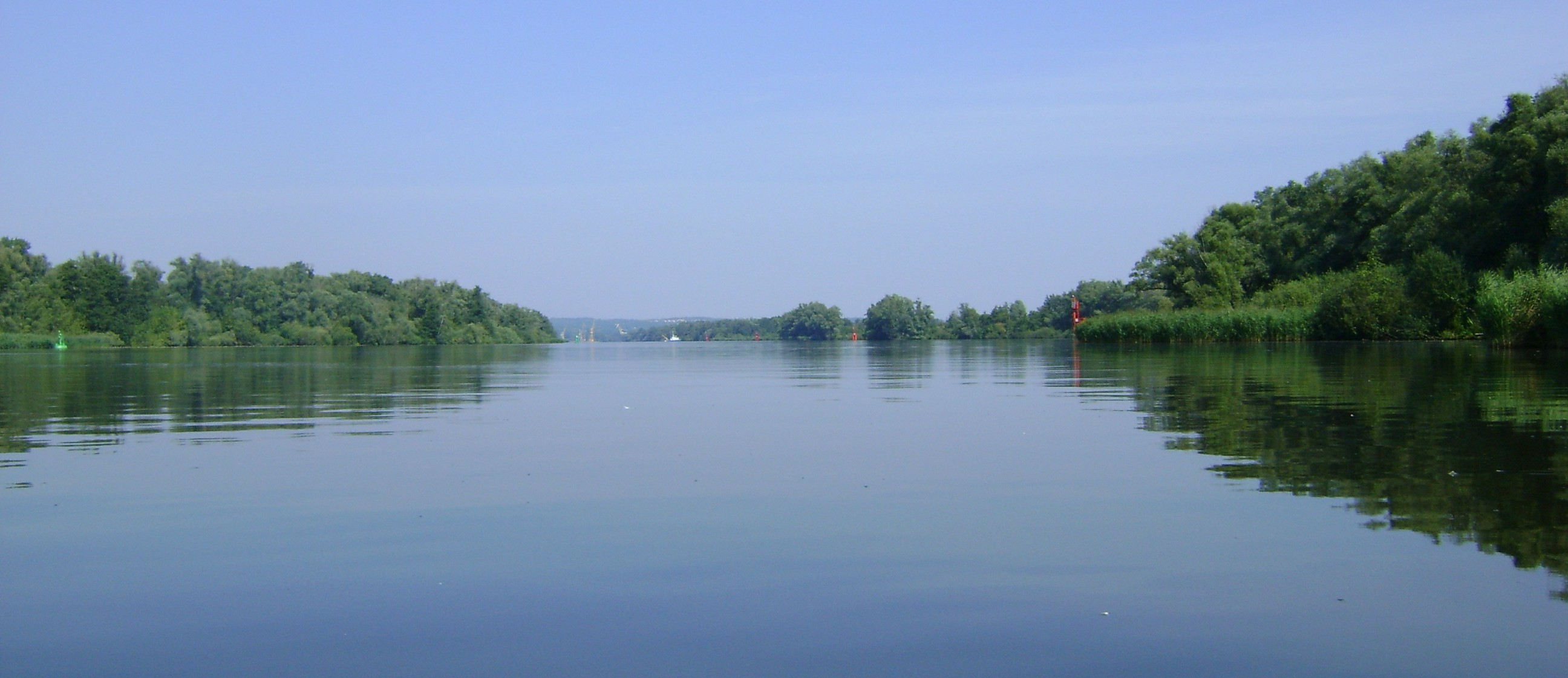 Przekop Mieleński - Waterway in Szczecin Port